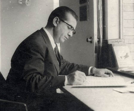 Musician Evencio Castellanos composing